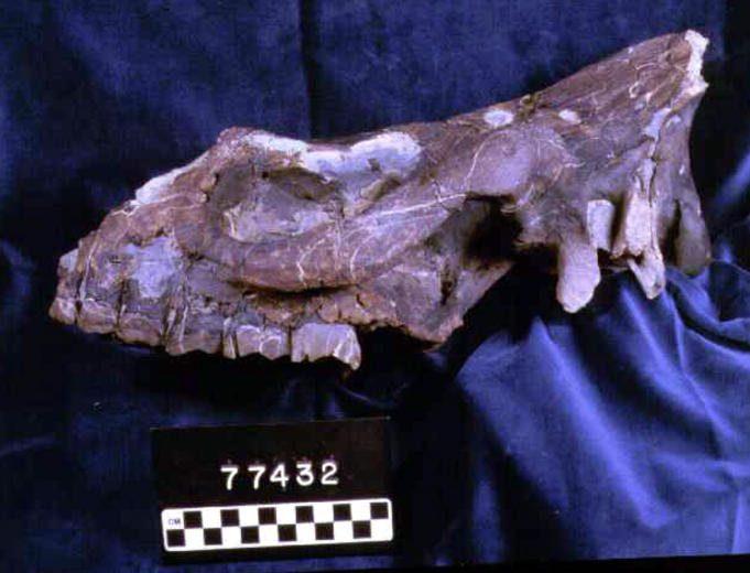 Diceratherium skull, Collected in 1962 by J. Rensberger and party. Arikareean, "Drizzle basin", John Day Formation; Wheeler County, Oregon. University of California Museum of Paleontology Specimen 77432